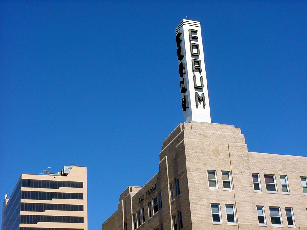 Neon sigh on the Fargo Forum Newspaper Building in Downtown Fargo, North Dakota